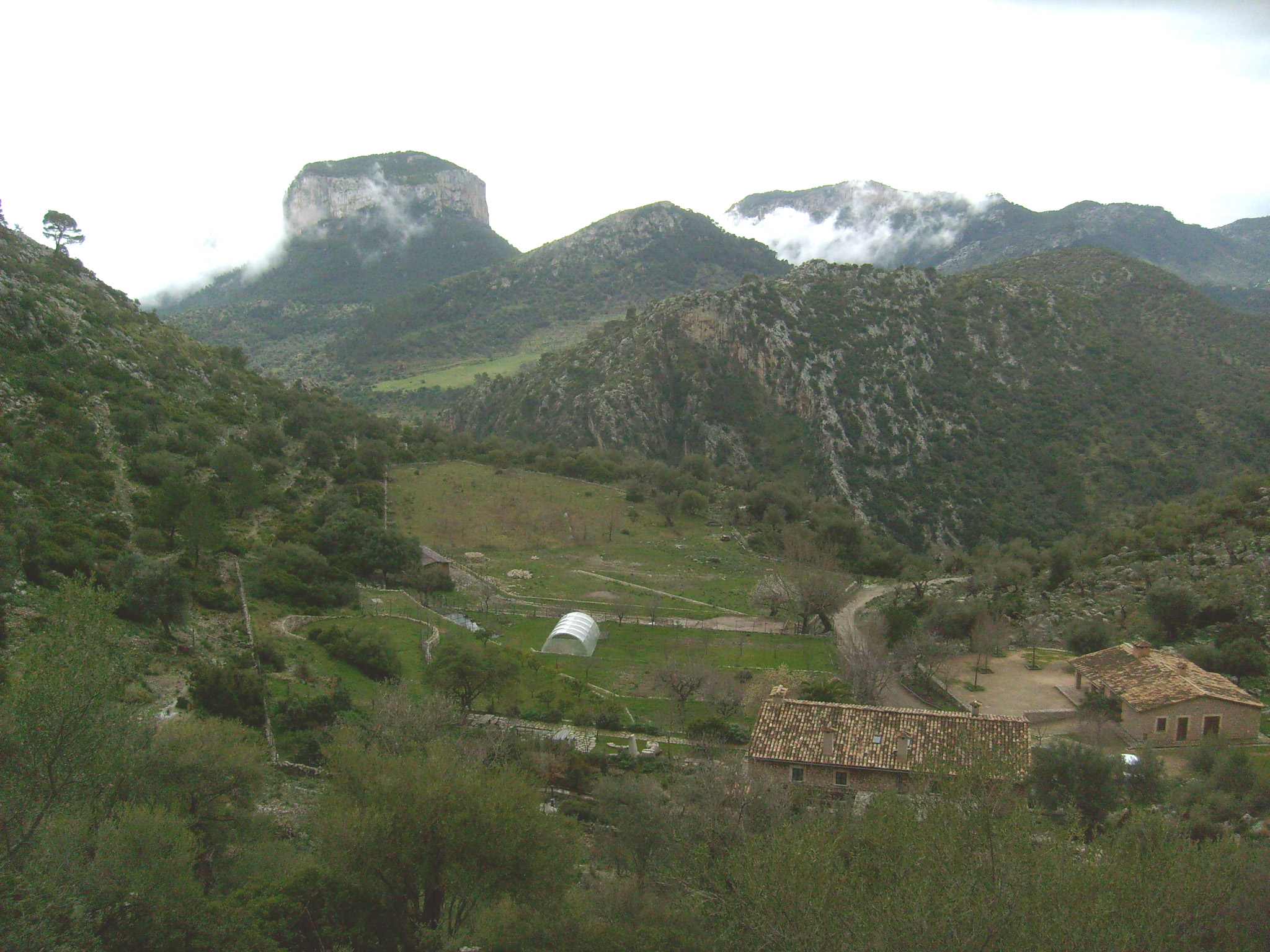 GR 221: Refugi Tossals Verds Lookout from refugi Tossals Verds; the prominent mountain at the left is the Puig d’Alcadena